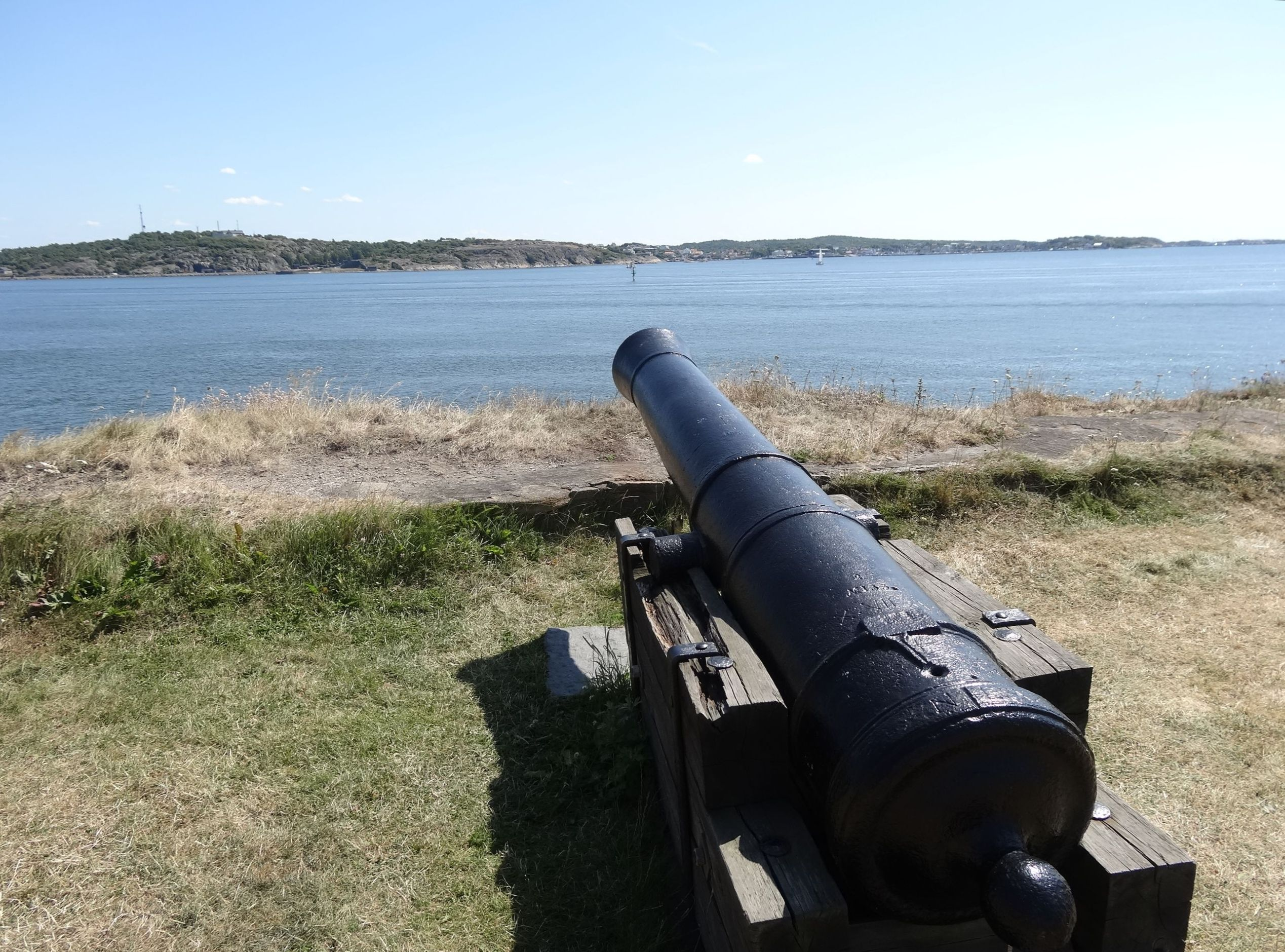 View from the bastion Mermaid at the fortress Nya Älvsborg, Gothenburg, Sweden, towards southeast. From left are the hills Käringberget, Västerberget and the small port Långedrag.